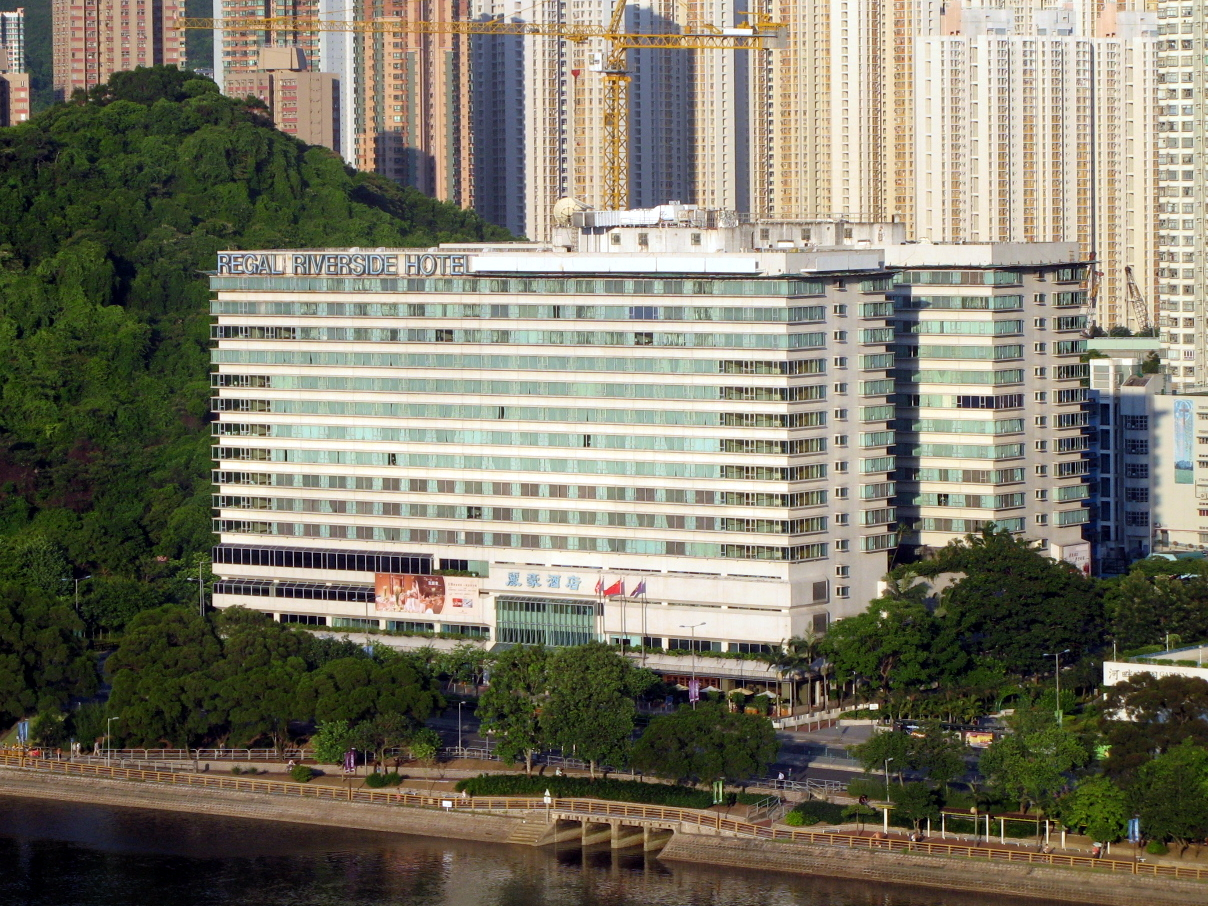 HK Regal Riverside Hotel in 2007